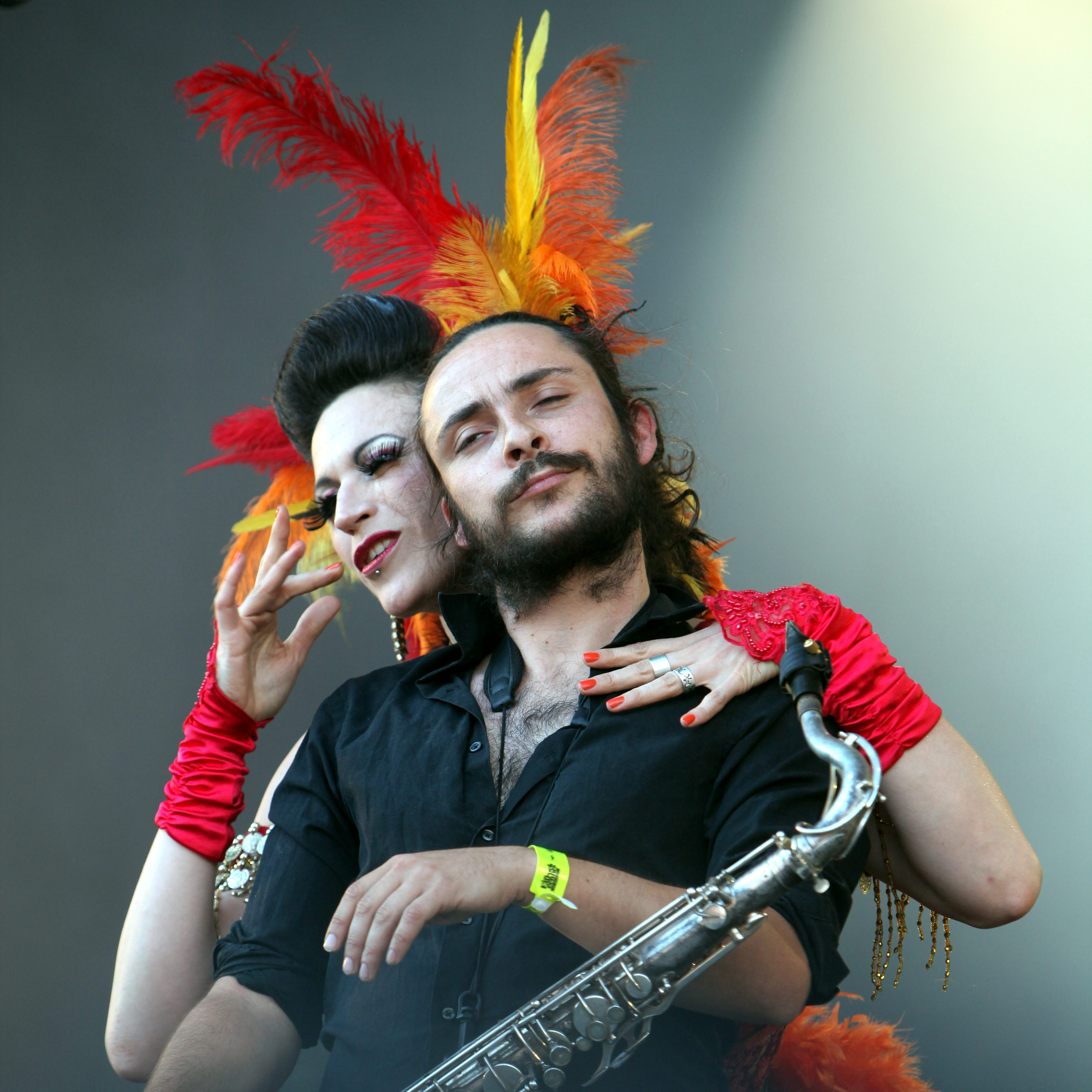 Les Hurlements d'Léo at the Eurockéennes de Belfort 2011 The making of this document was supported by Wikimedia CH. (Submit your project!) For all the files concerned, please see the category Supported by Wikimedia CH.